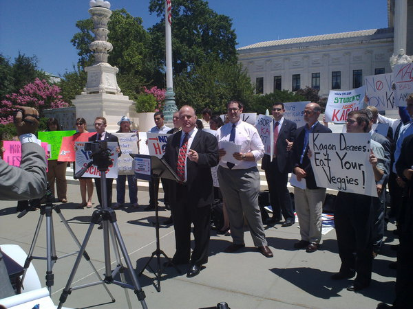 National Tea Party leader Michael Johns, a former White House speechwriter and Heritage Foundation policy analyst, addresses a press conference in opposition to the nomination of Elena Kagan to the U.S. Supreme Court, United States Supreme Court, Washington, D.C., July 1, 2010.